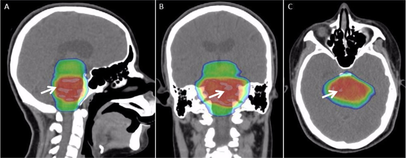 Treatment plan for a 16-year-old female with a diffuse intrinsic pontine glioma. Sagittal (A), coronal (B), and axial (C) slices of a dose color wash of a 10-beam non-coplanar intensity-modulated radiation therapy (IMRT) plan (white arrows) to 54 Gy in 30 fractions.